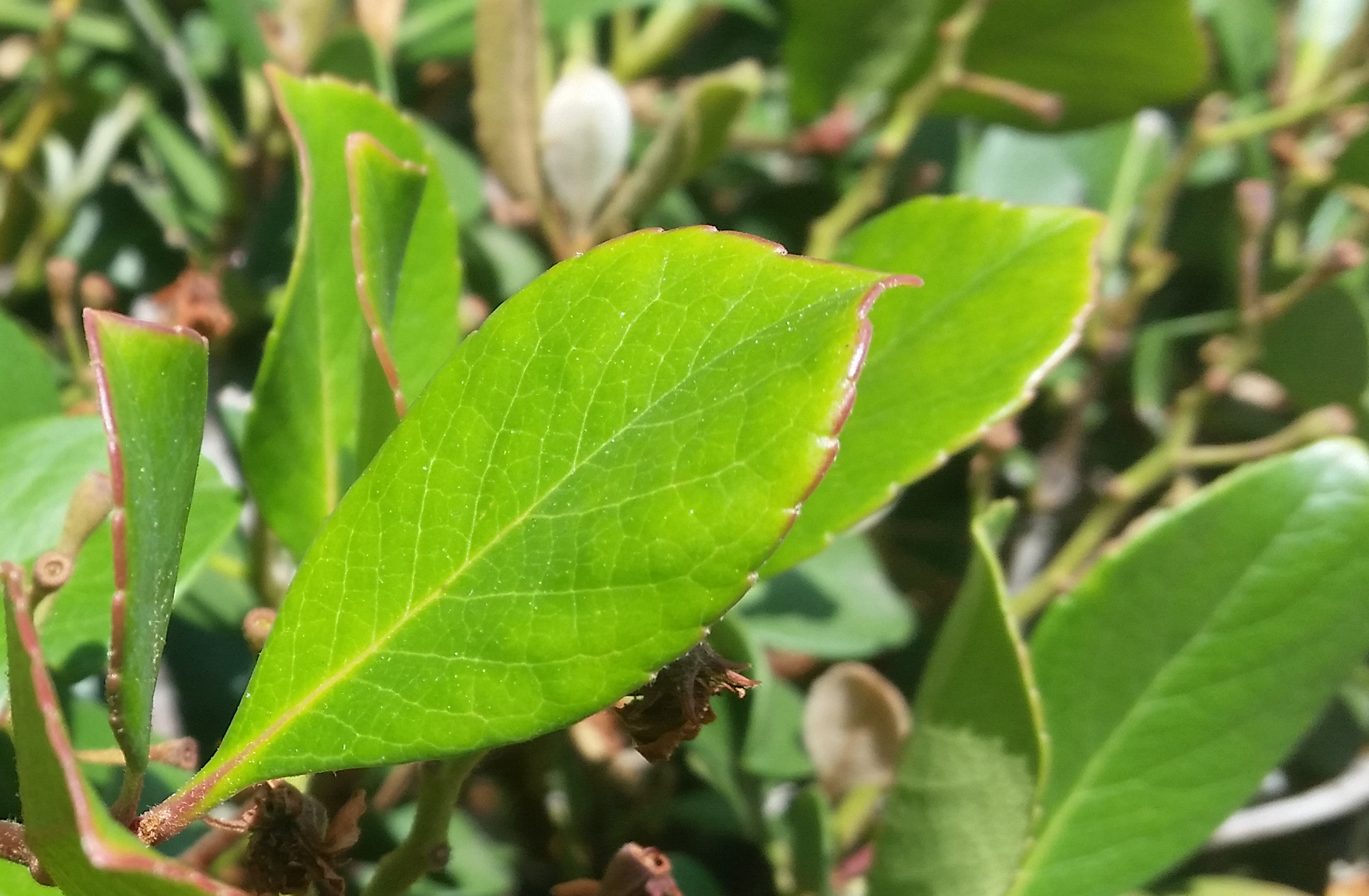 Photo of a leaf, covered in epicuticular wax.